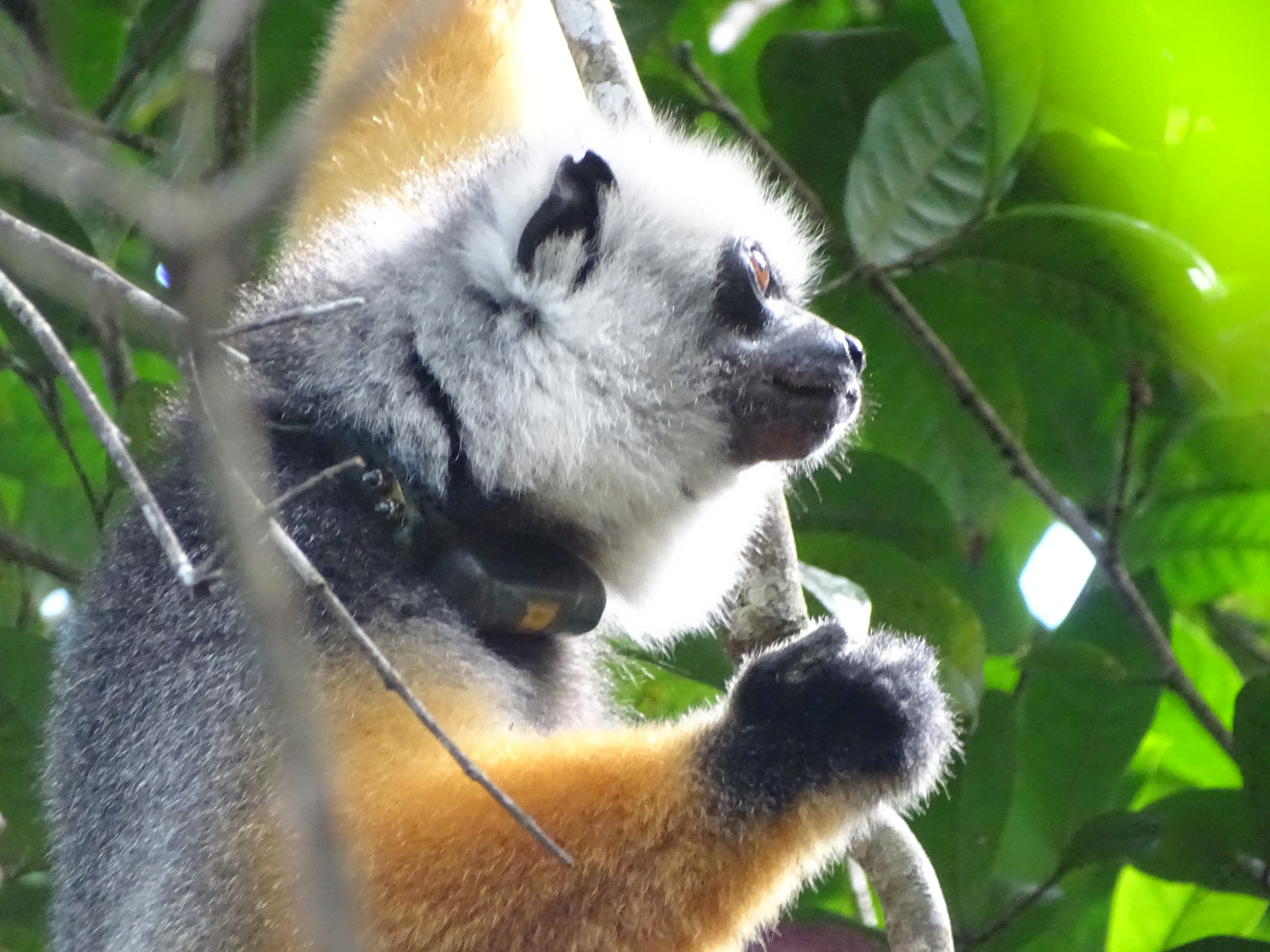 Diademed Sifaka wearing a radio coller